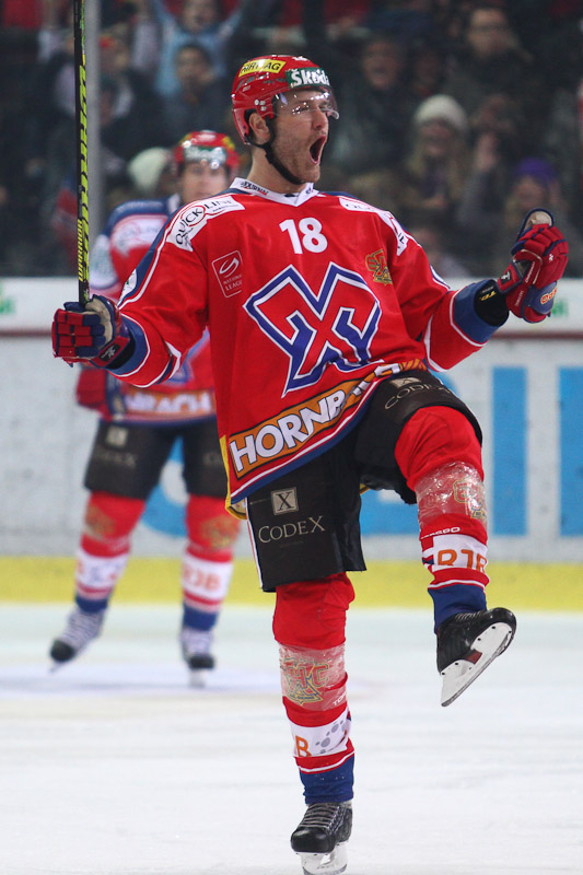 Ahren Spylo, Icehockey Player